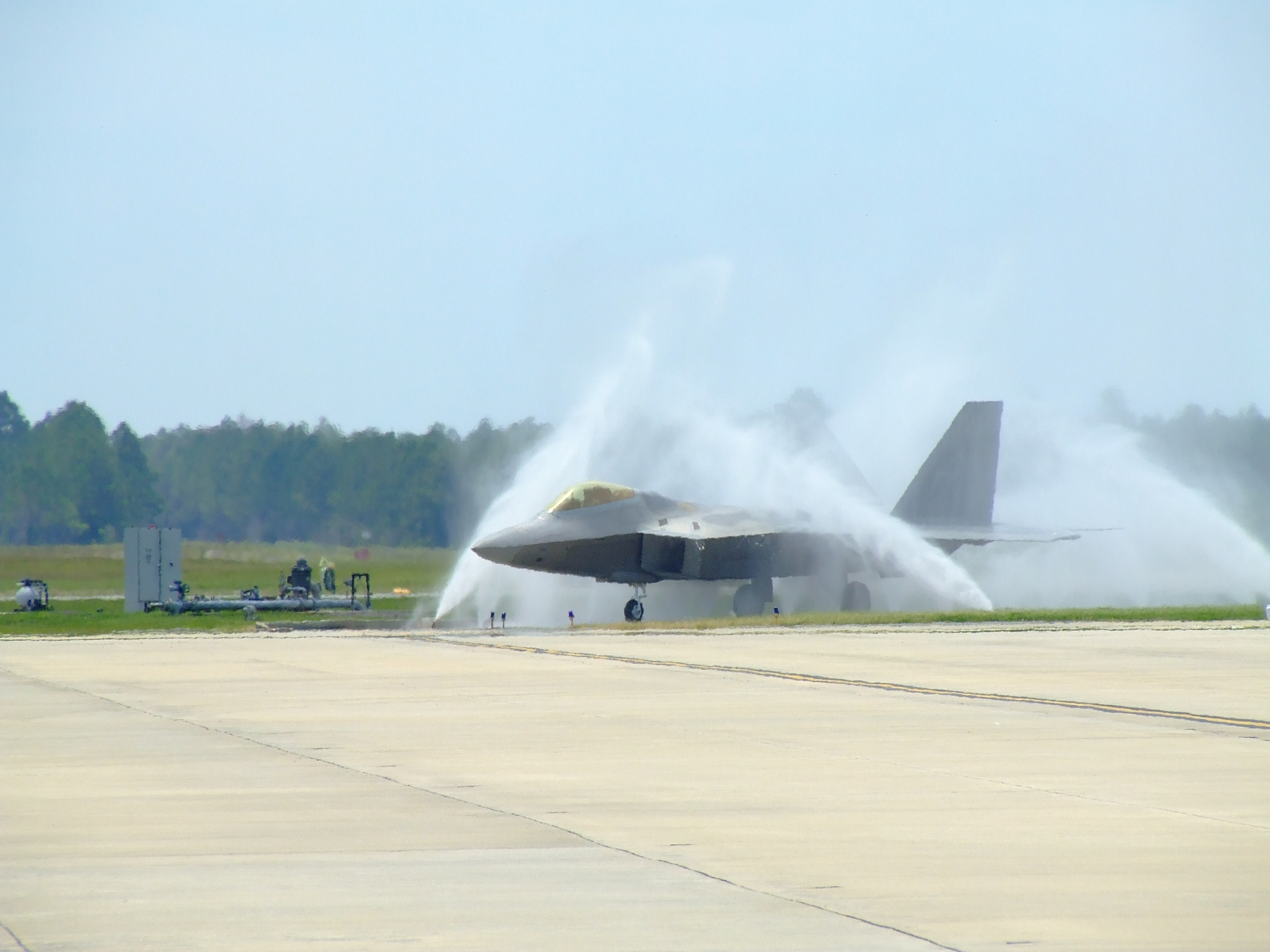 An F-22 Raptor gets a "bird bath" near the end of the runway here at the TYNDALL AIR FORCE BASE. Because of Tyndall's coastal location, corrosion is accelerated by the salty sea air. To combat this, the jets are washed on a daily basis to rinse off the salt residue and prevent corrosion.